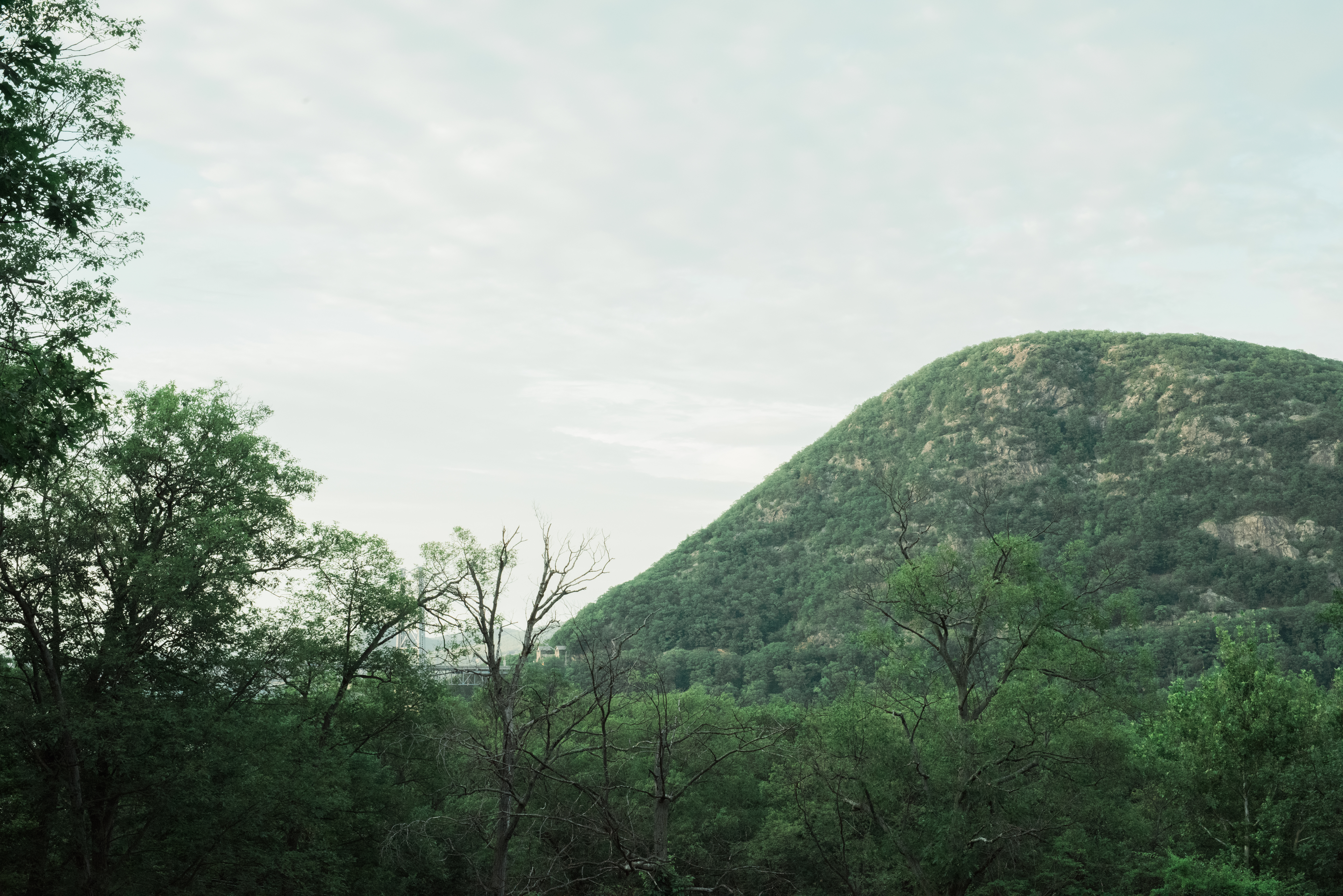 View of Bear Mountain State Park from Palisades Interstate Parkway.